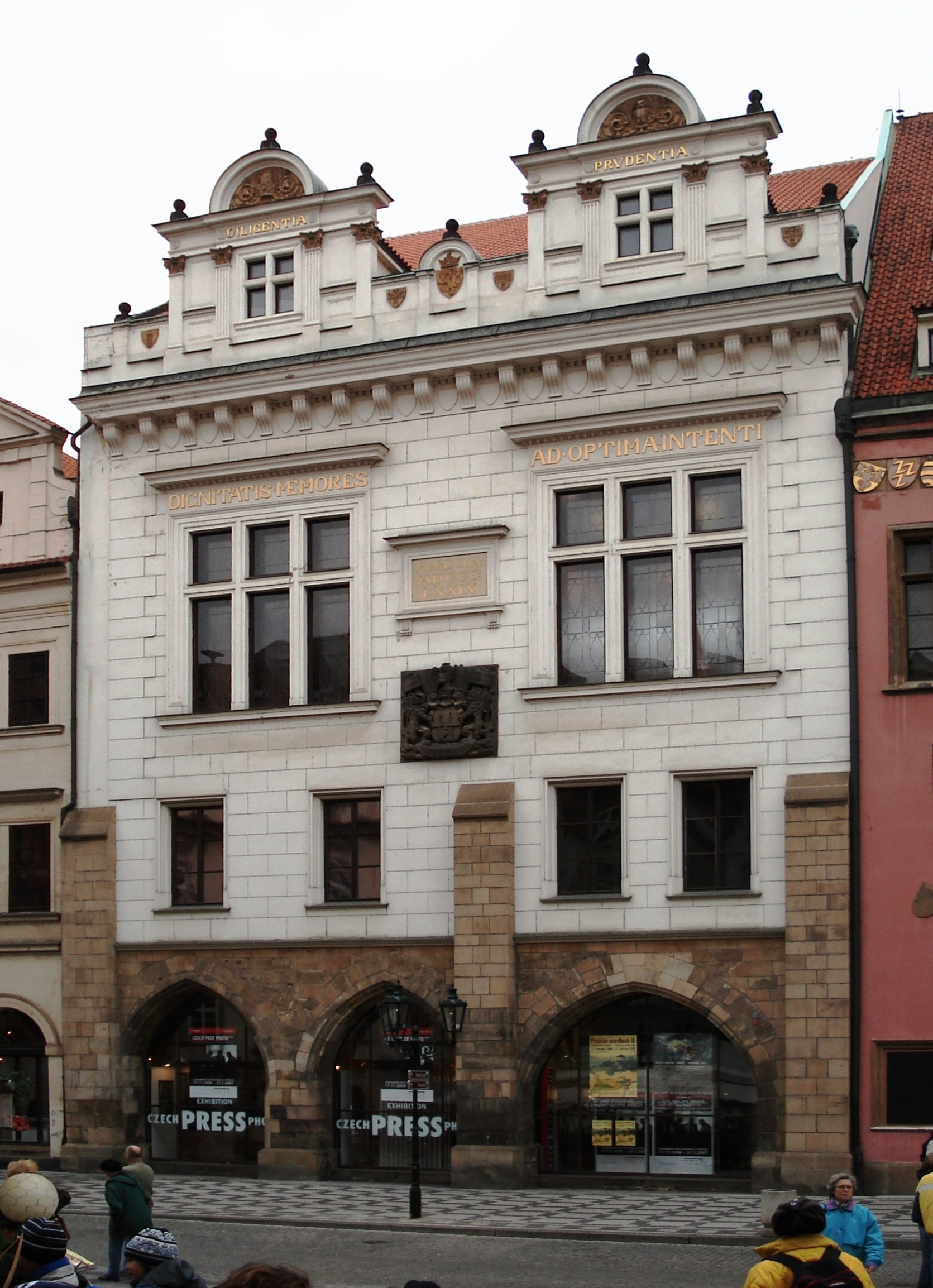 Prague Town hall.